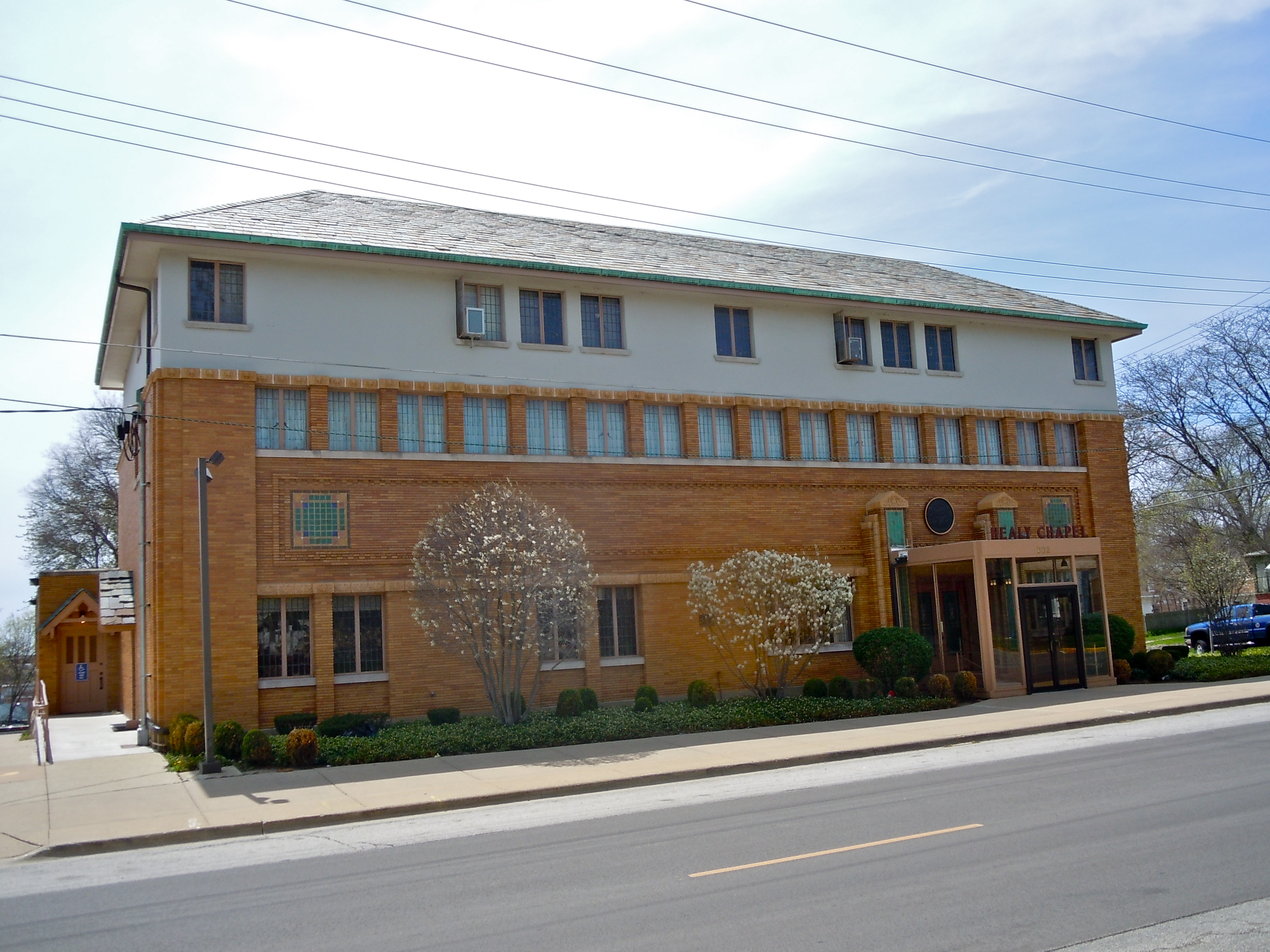 Healy Chapel, a funeral home and early crematorium built in the Prairie School style, on the NRHP since February 28, 1985. At 332 W. Downer Pl., Aurora, Kane County, Illinois